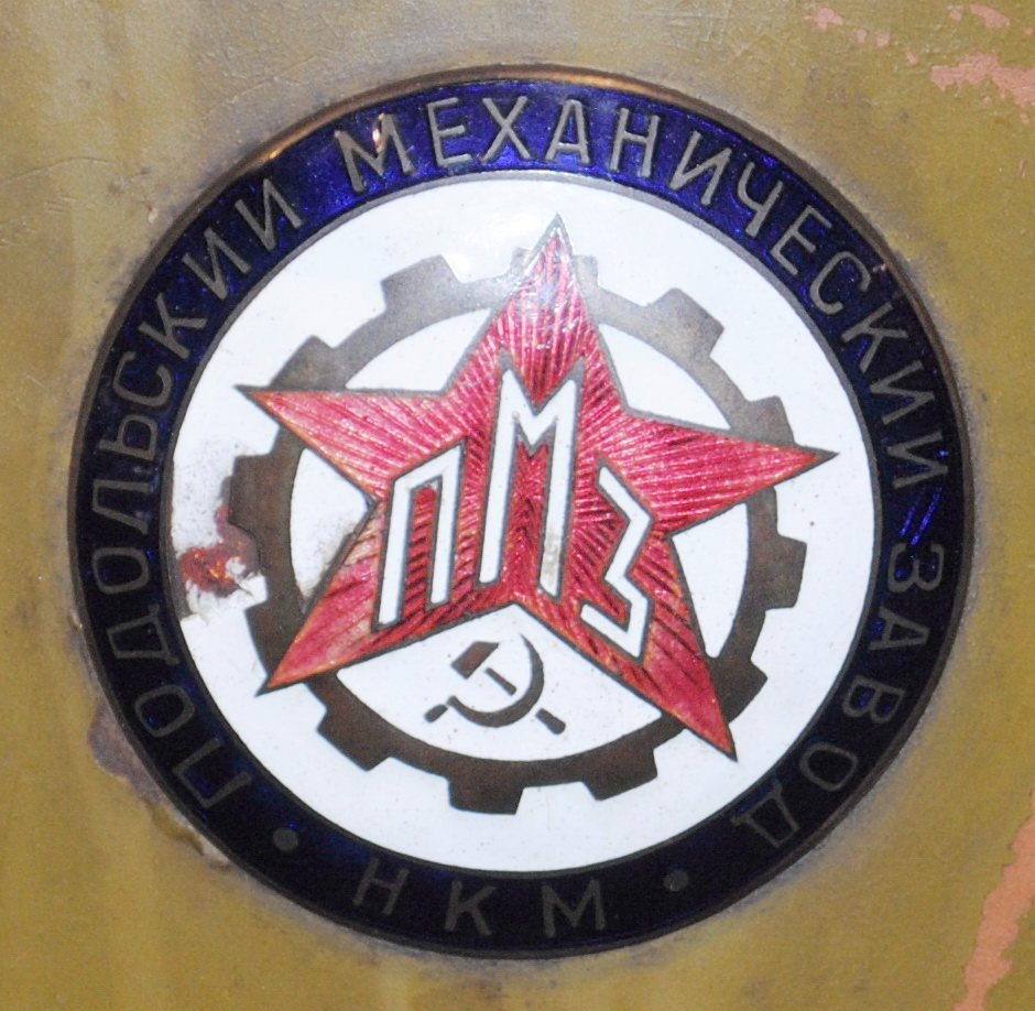 PMZ-A-750 motorcycle tank badge